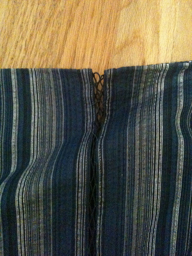 A closeup of the seam used for "Jinbei" robes in Japan